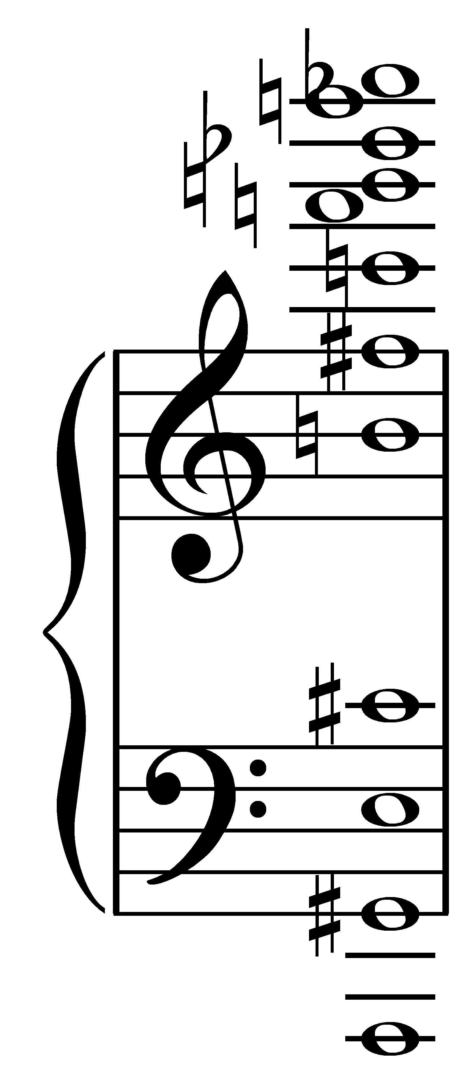 Motherchord (Mutterakkord), pyramidal (symetrical) chord. The first known all-interval row, the Mother chord, was devised by Fritz Heinrich Klein: F, E, C, A, G, D, A♭, D♭, E♭, G♭, B♭, C♭ = 0 e 7 4 2 9 3 8 t 1 5 6.